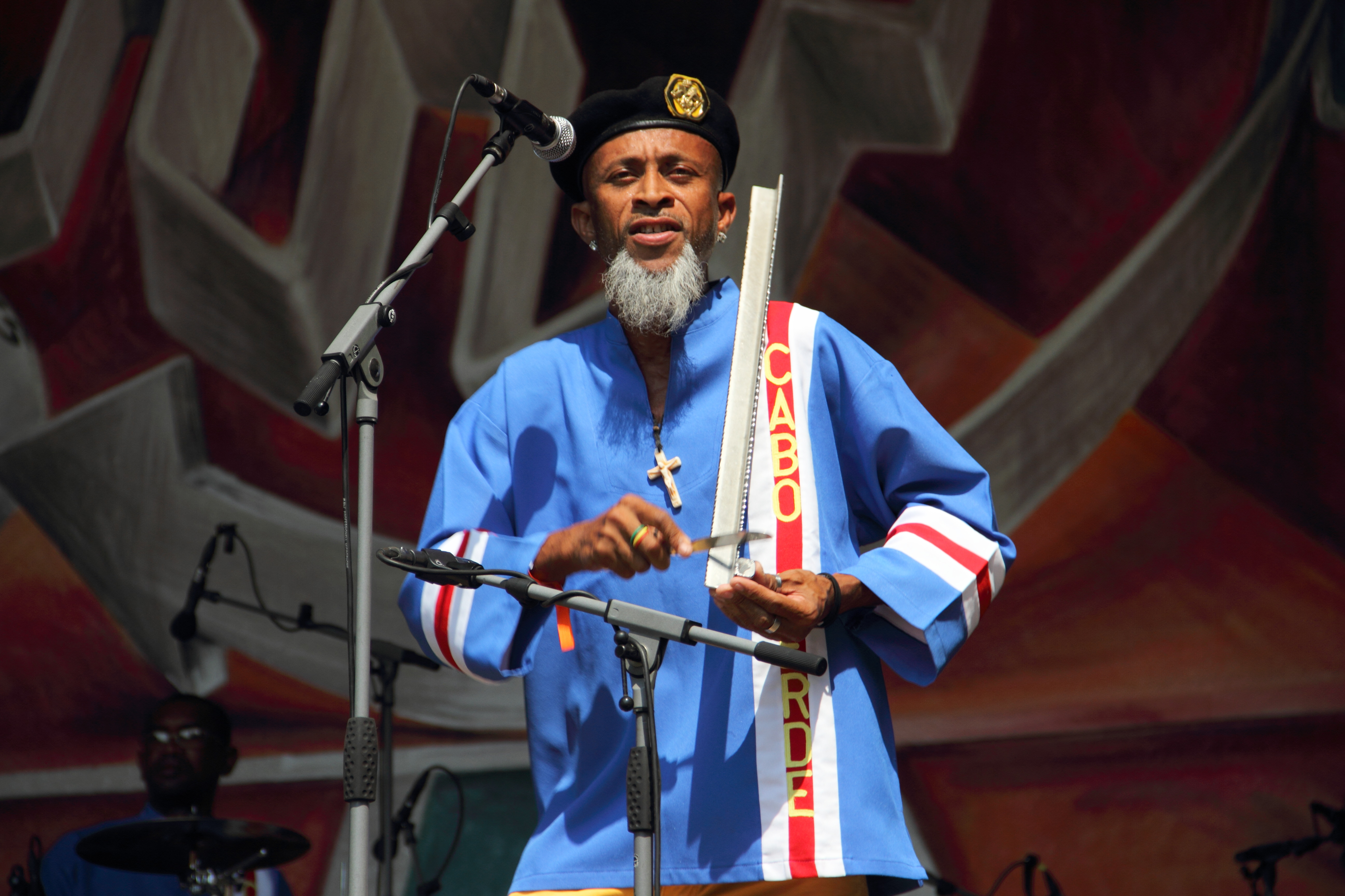 Bini Branco of Ferro Gaita from Cape Verde at TFF Rudolstadt 2015. He´s playing the ferrinho.